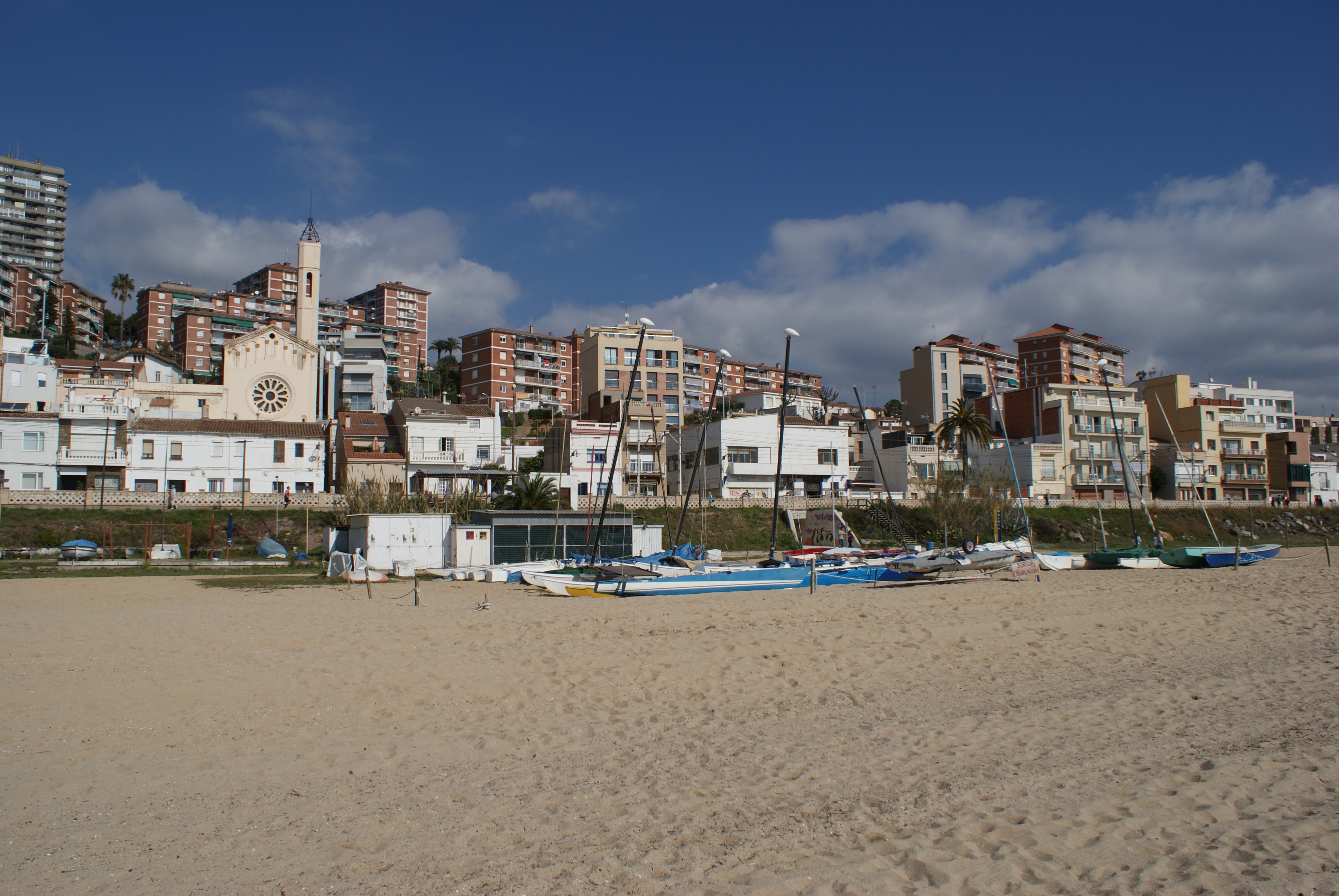 This picture show the Montgat beach. A litle town not far from Barcelona.